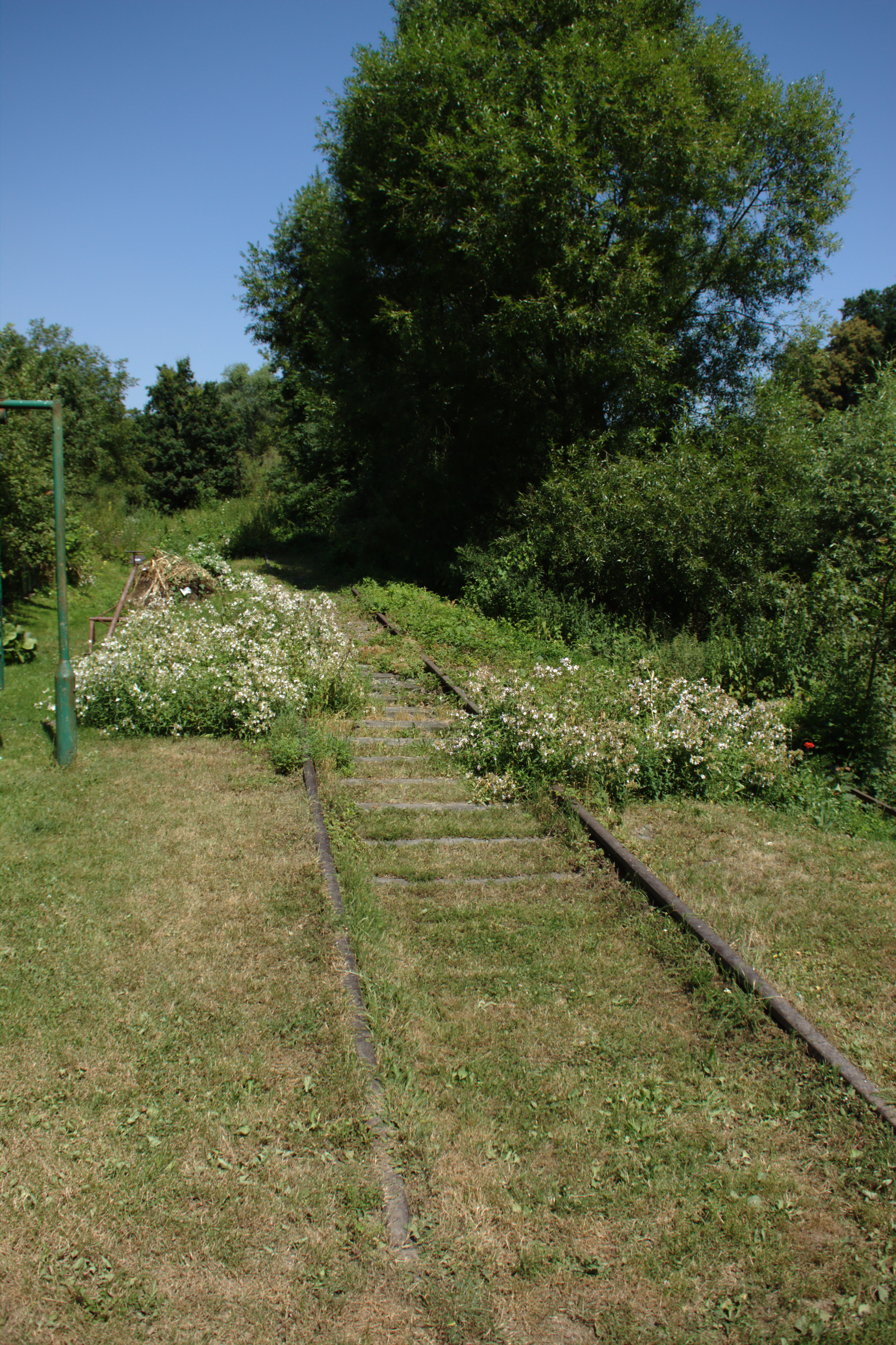 An abandoned track in Niemcza, eastwards from the central part of the town. Lower Silesian Voivodeship, Poland